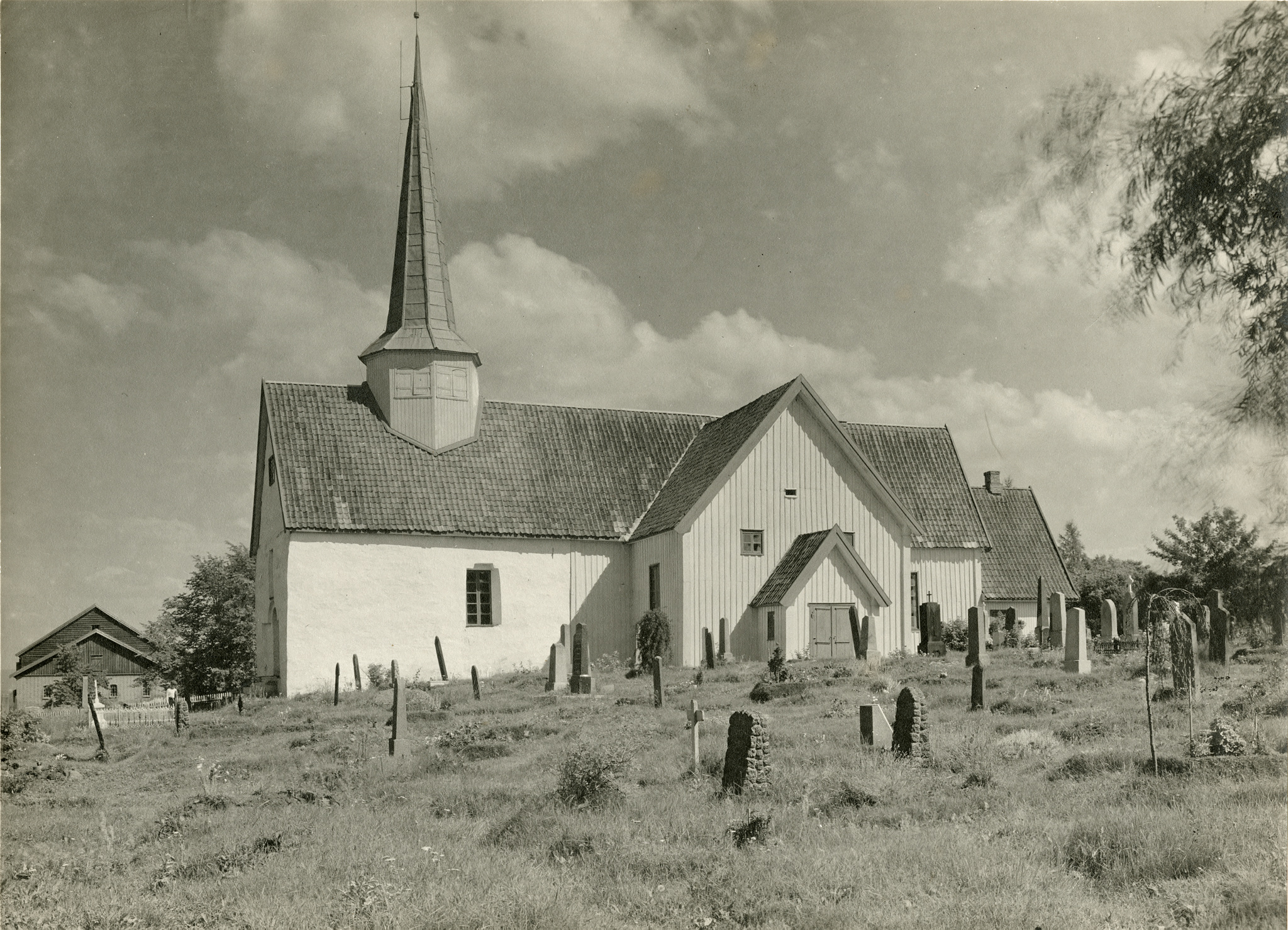 Hole kirke før brannen i 1943. Fra Kulturminnebilder.no.